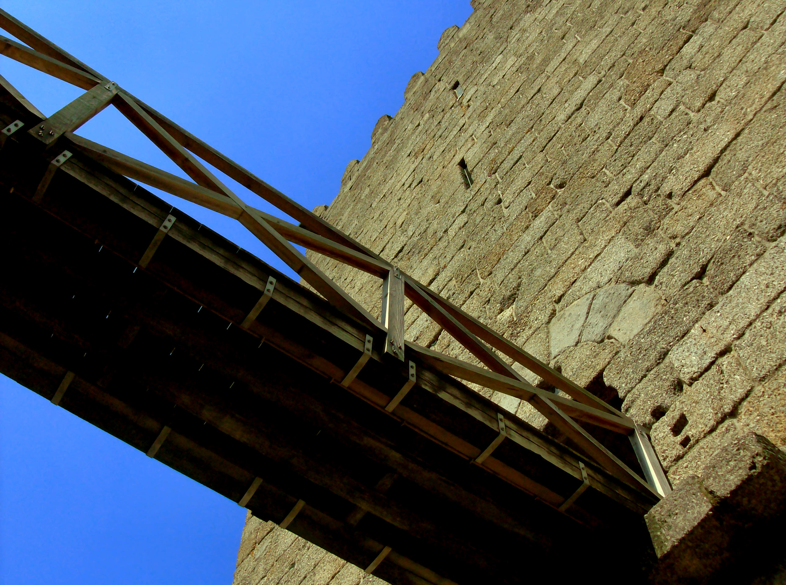 Keep